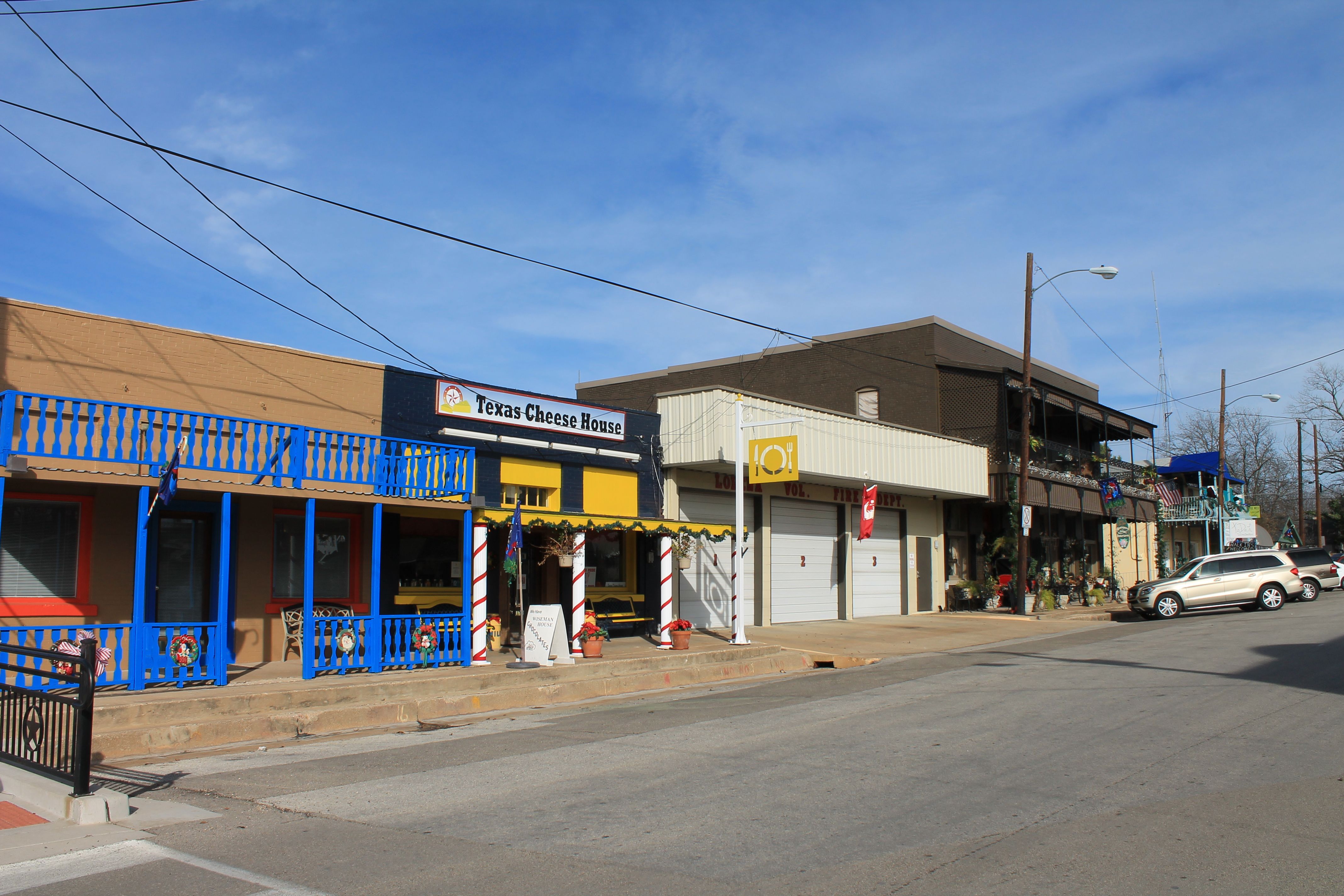 Lorena, Texas